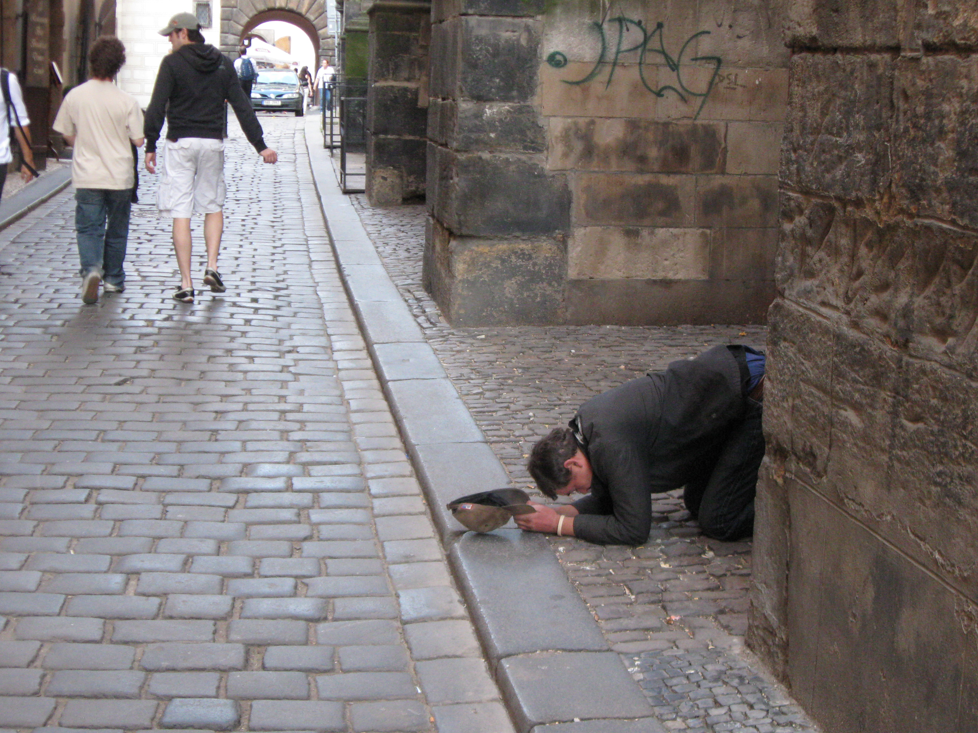 Personality rights warning Although this work is freely licensed or in the public domain, the person(s) shown may have rights that legally restrict certain re-uses unless those depicted consent to such uses. In these cases, a model release or other evidence of consent could protect you from infringement claims.